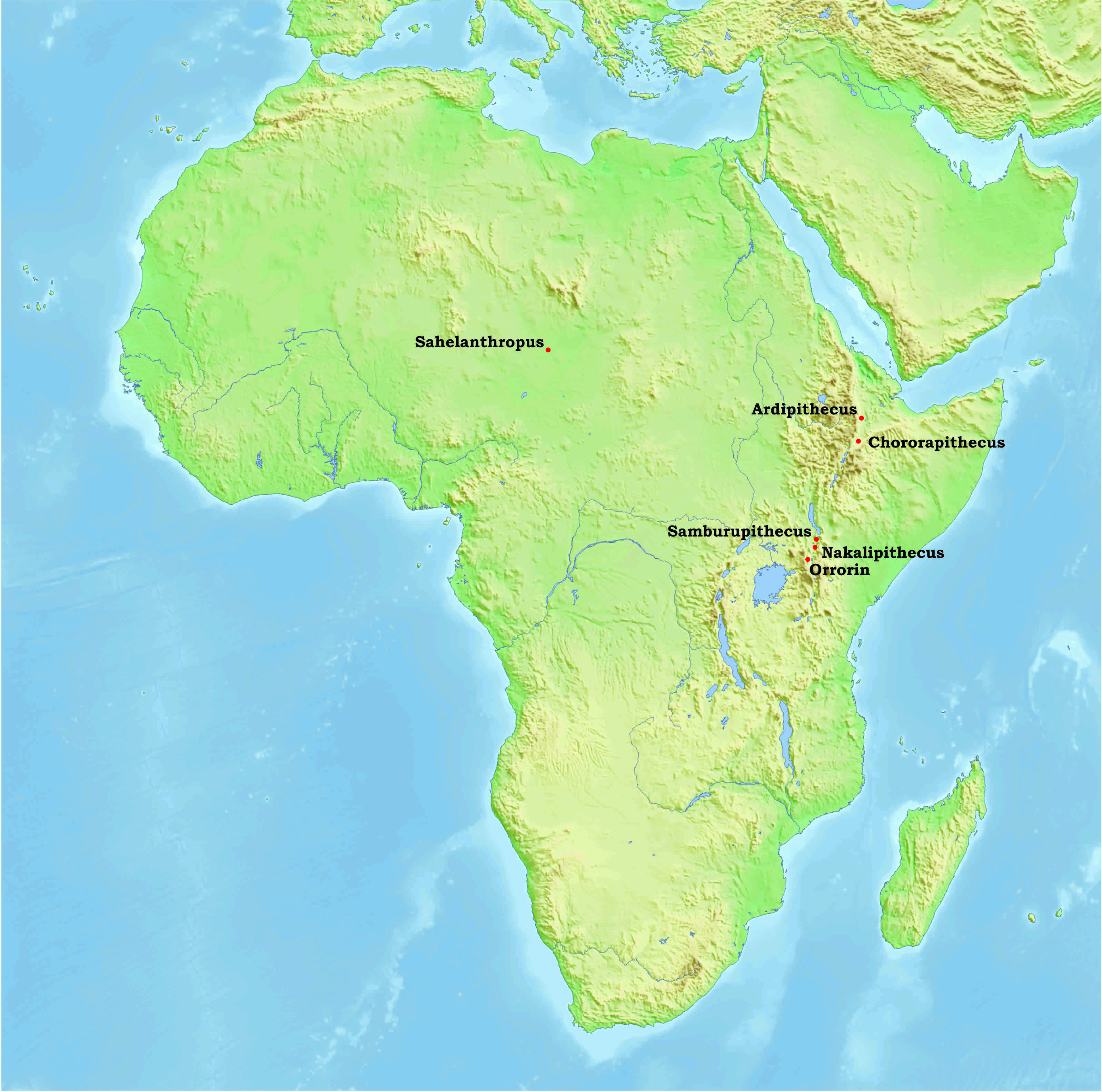 Paleoantropological sites of late miocene, Africa (11 - 5 Ma)